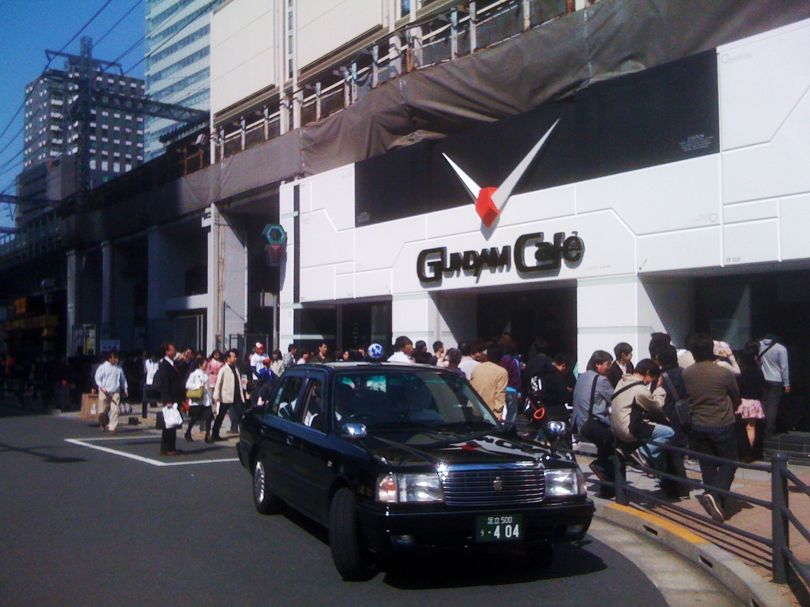 Gundam Cafe